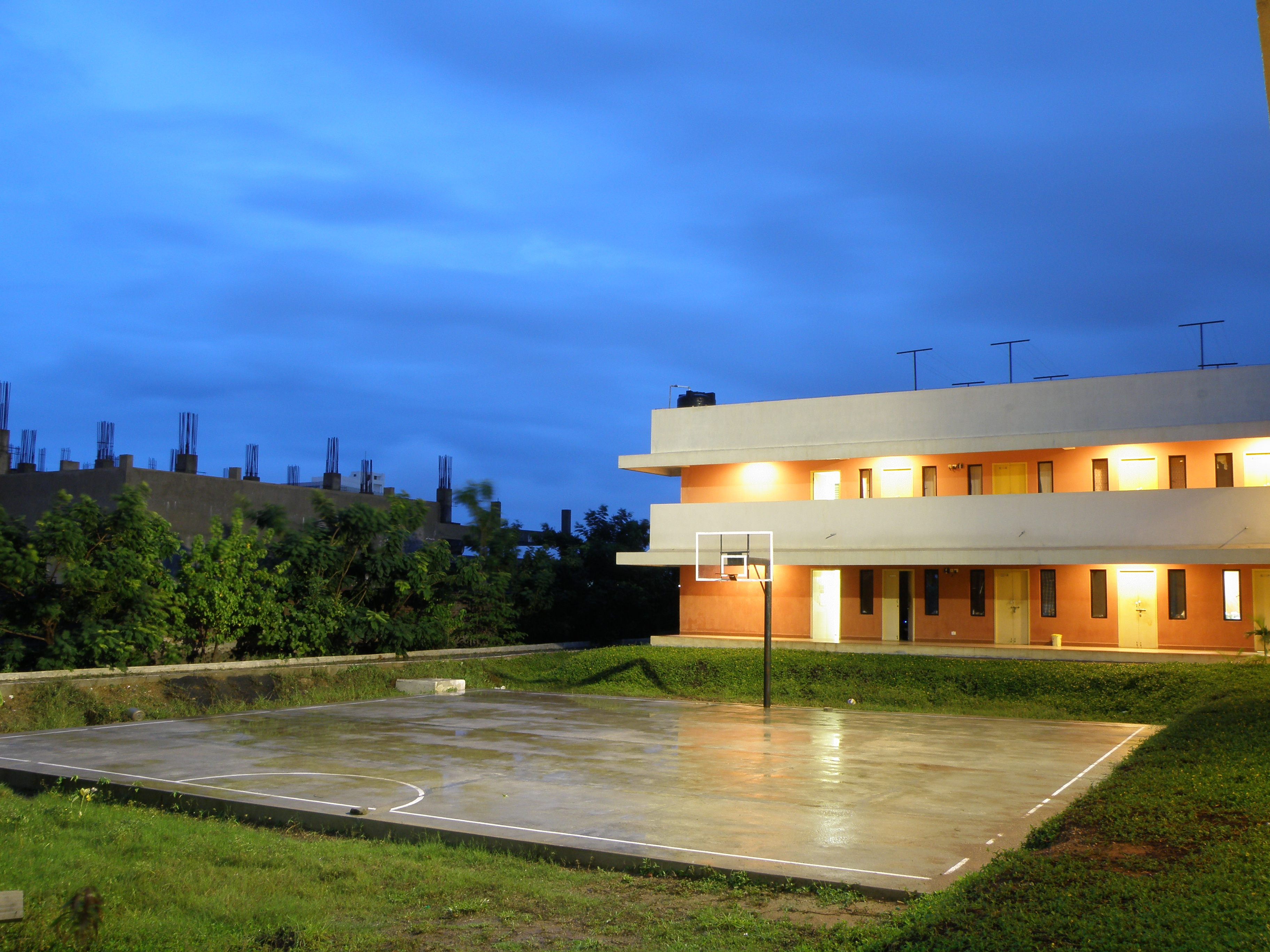 Hostel at Chennai Mathematical Institute